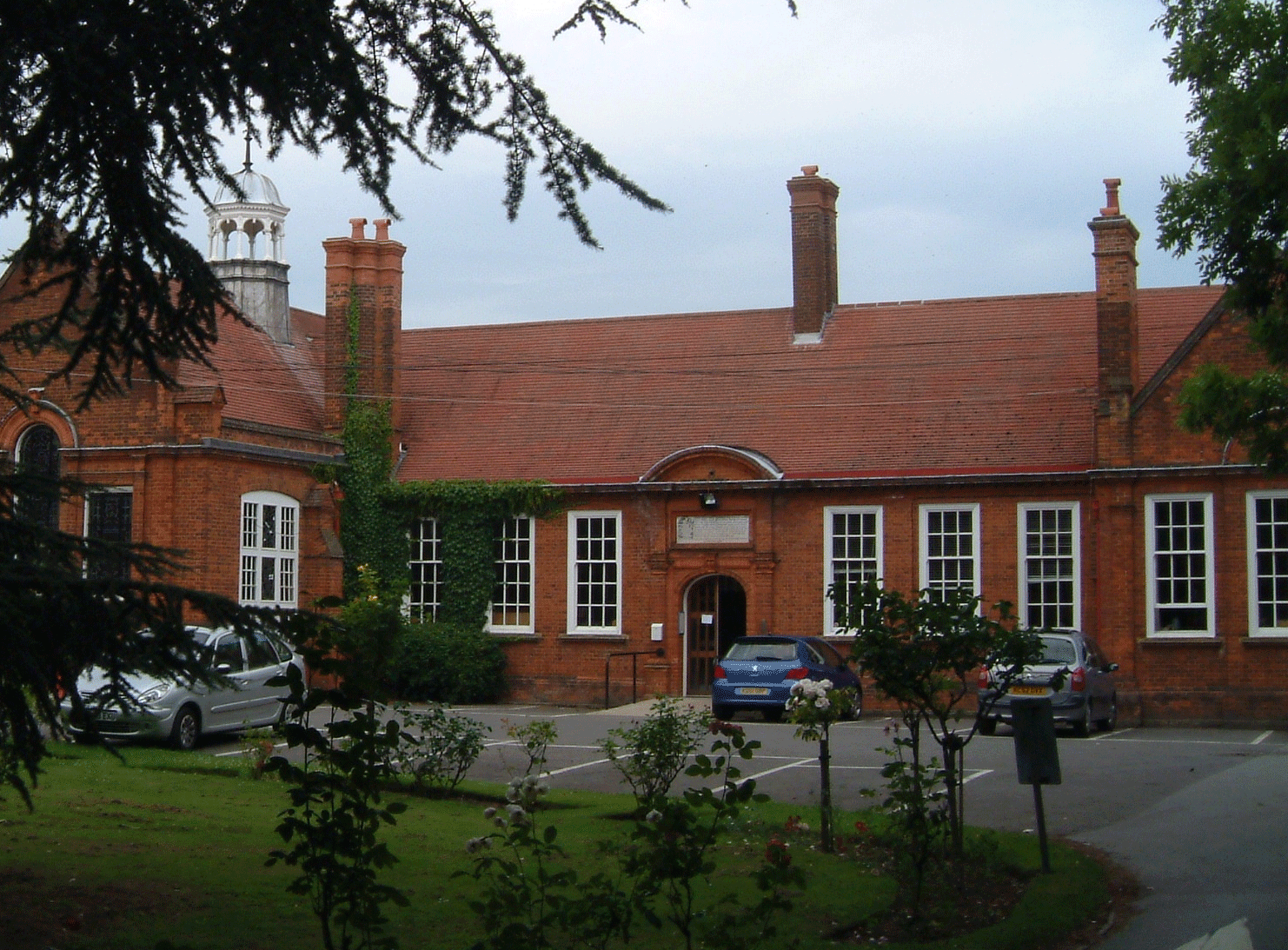 The front of Hitchin Boys' School UK